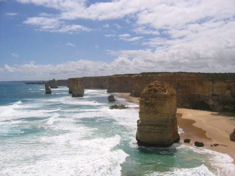 The Twelve Apostles are a landmark for Victoria and Australia. The limestone stacks are formed naturally: by erosion.